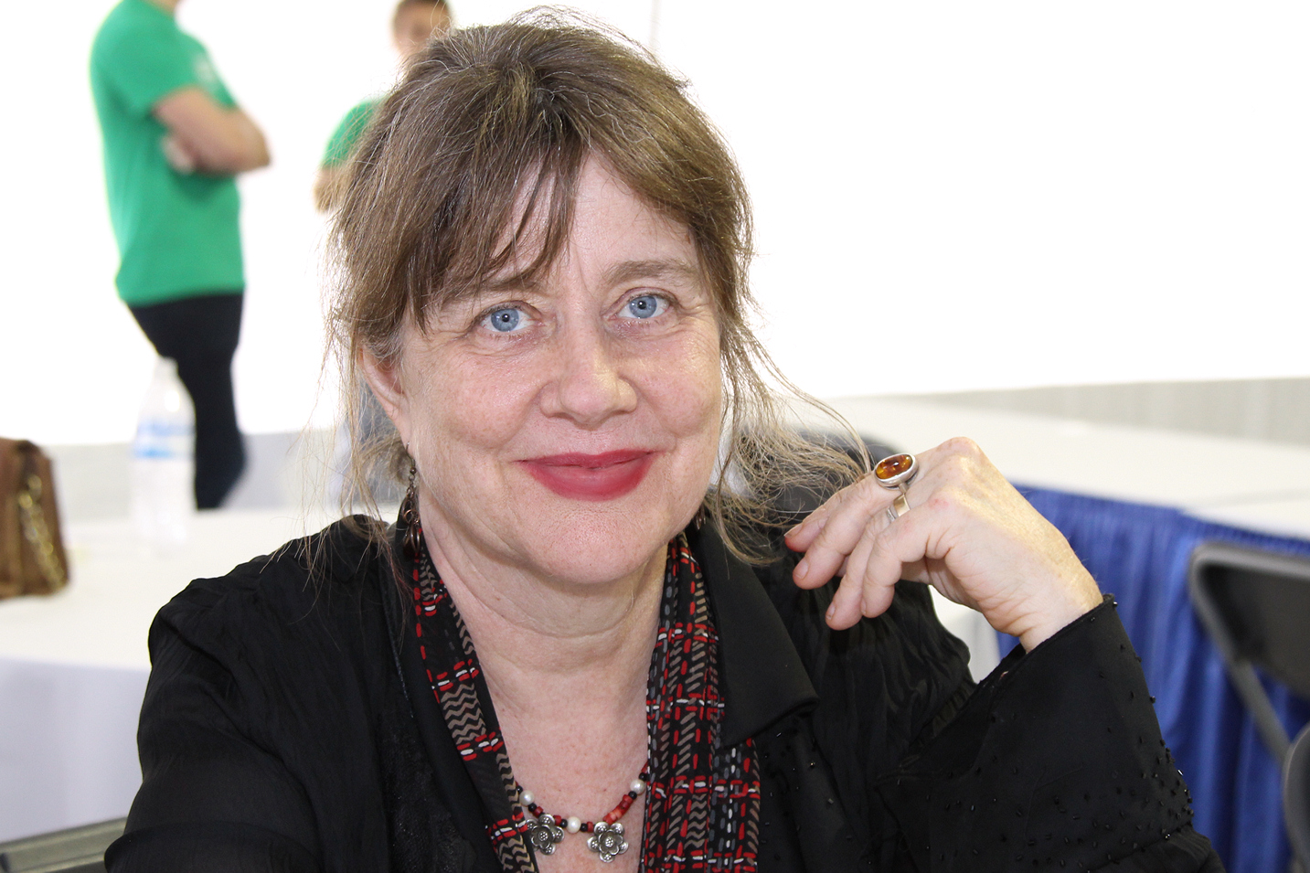 Poet Sheila Black at the 2017 Texas Book Festival in Austin, Texas, United States. Black is the author of over forty books for children and young adults.